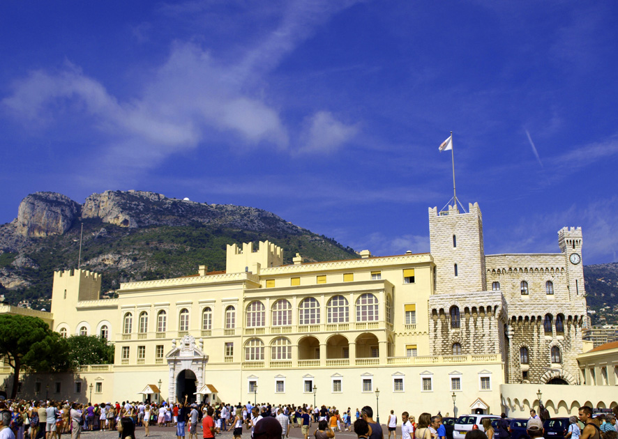 Prince's Palace of Monaco